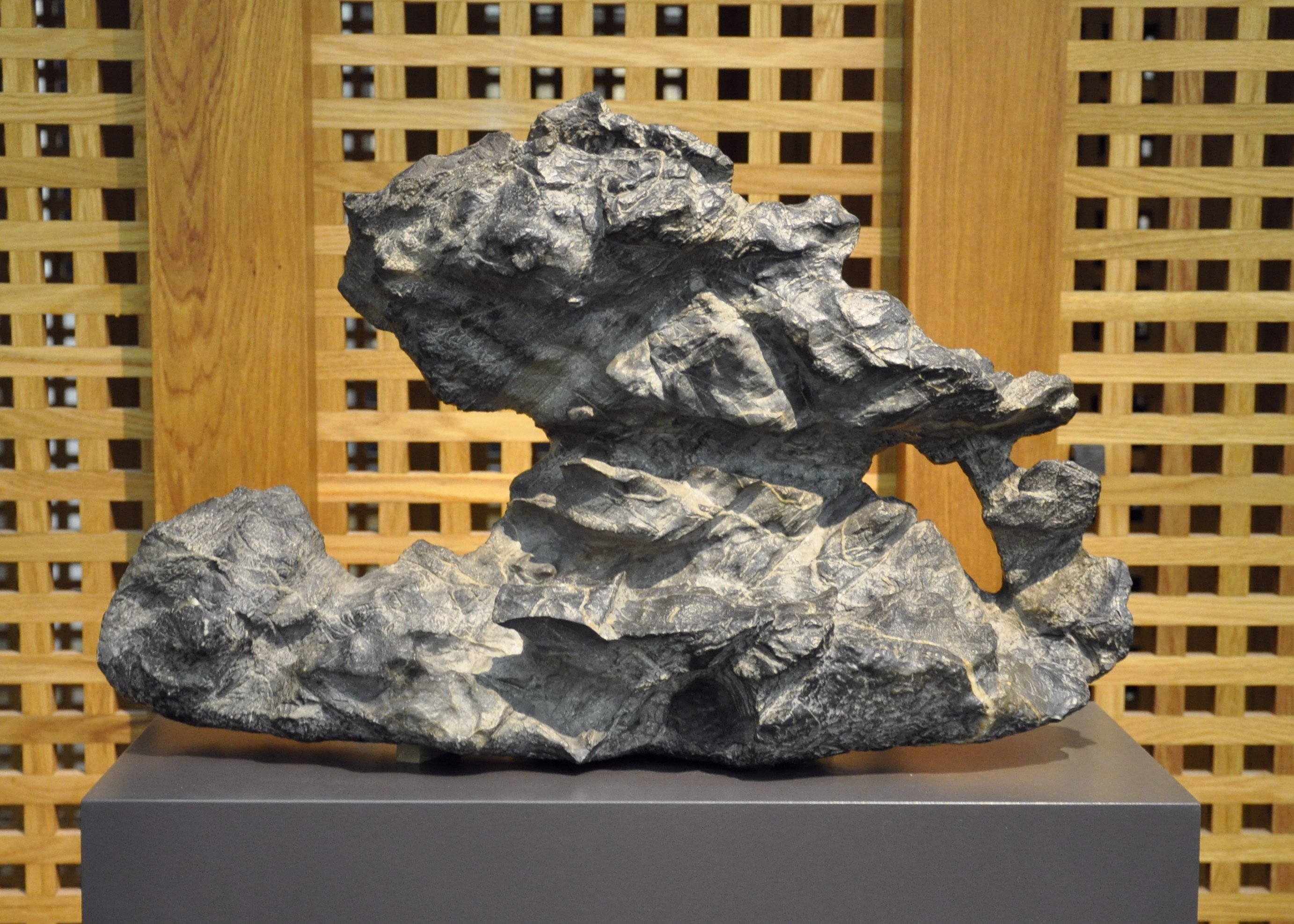 Scholar's rock, China, Anhui province, Ming Dynasty, 15th century; lime stone from Lingbi Museum Rietberg, Zurich; donation of Eduard von der Heydt; Inv. No. RCH 167